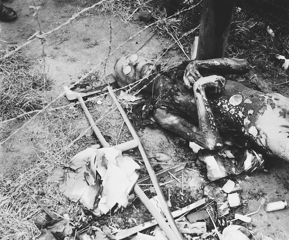 View of a badly burned corpse lying next to a barbed wire fence in the Leipzig-Thekla sub-camp. The man's glasses are still on him and a crutch lies next to him.